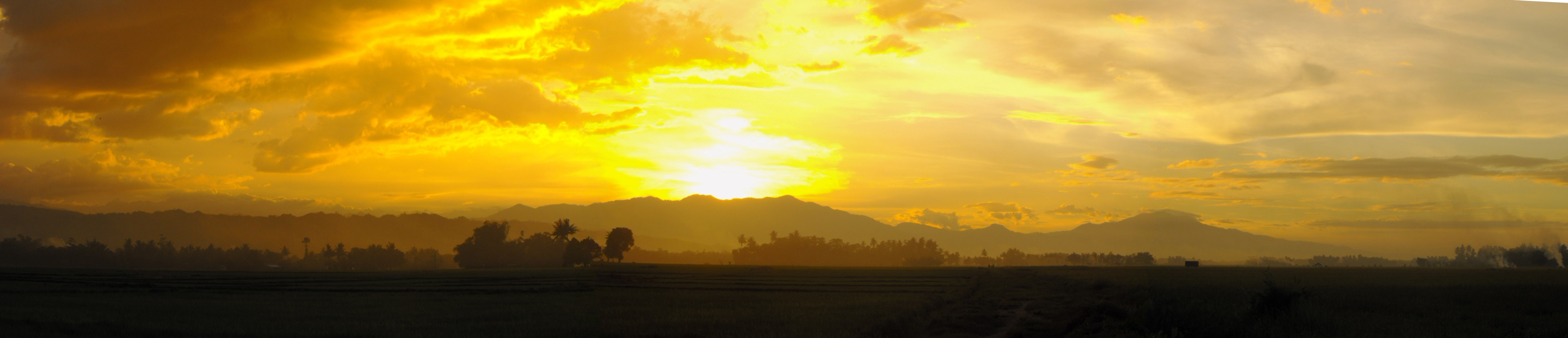 Panorama northwest view, Surallah, South Cotabato